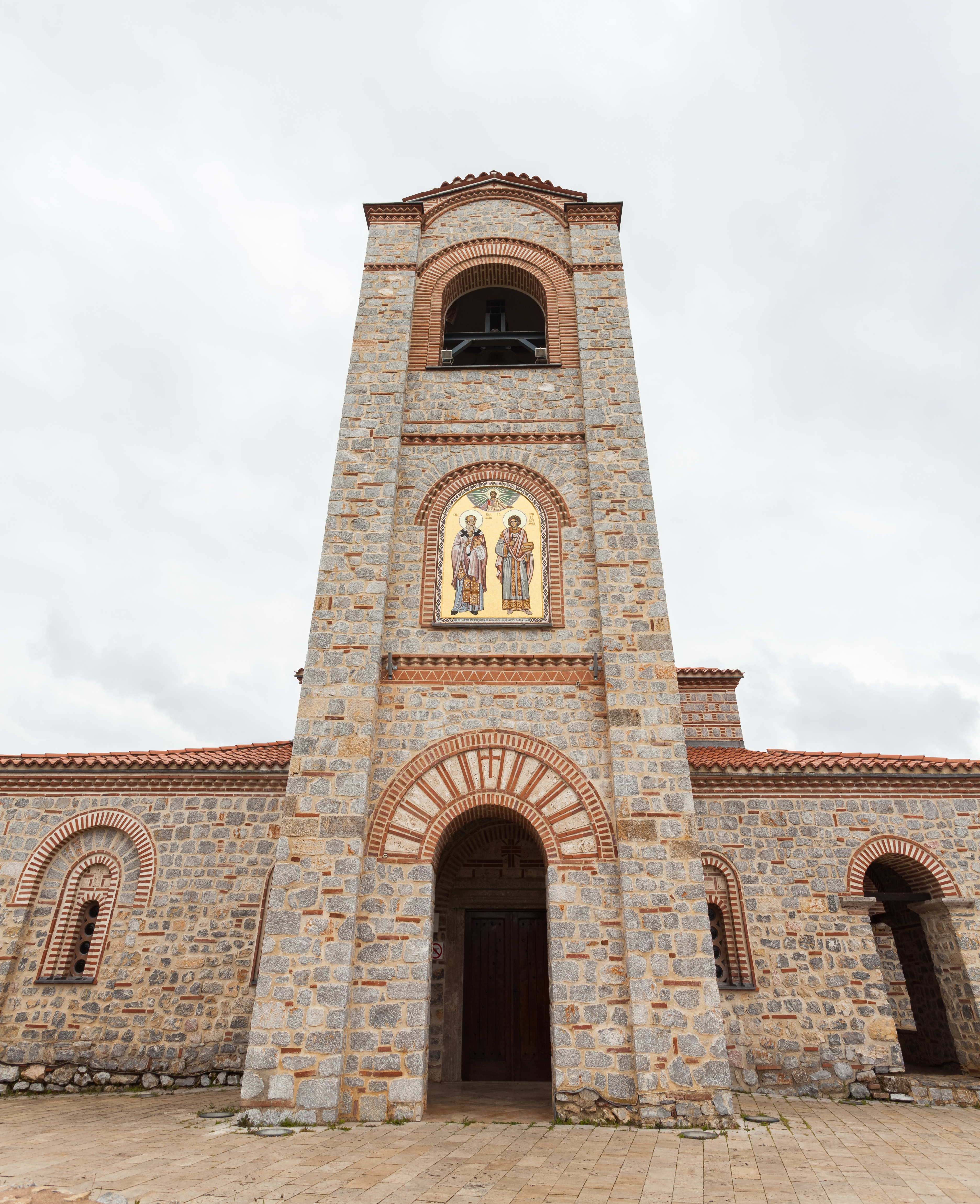 St Panteleimon church, Ohrid, Macedonia